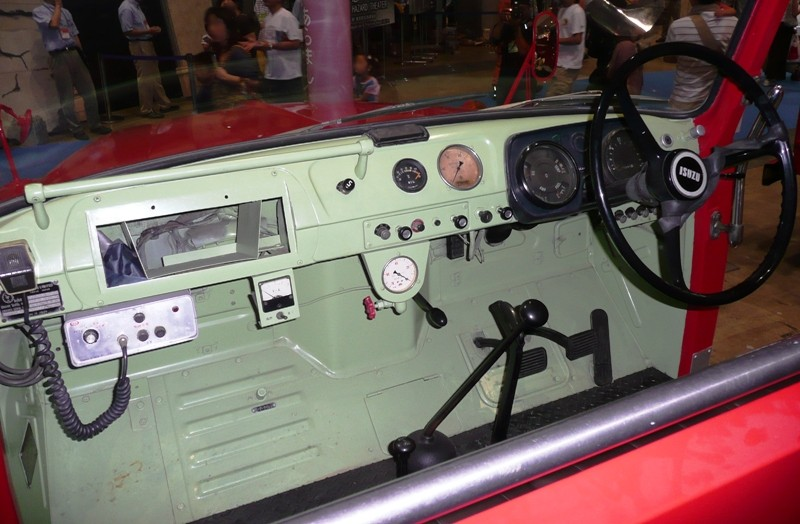 Isuzu TX cookpit.